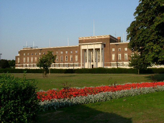 Dagenham Civic Offices. An imposing structure